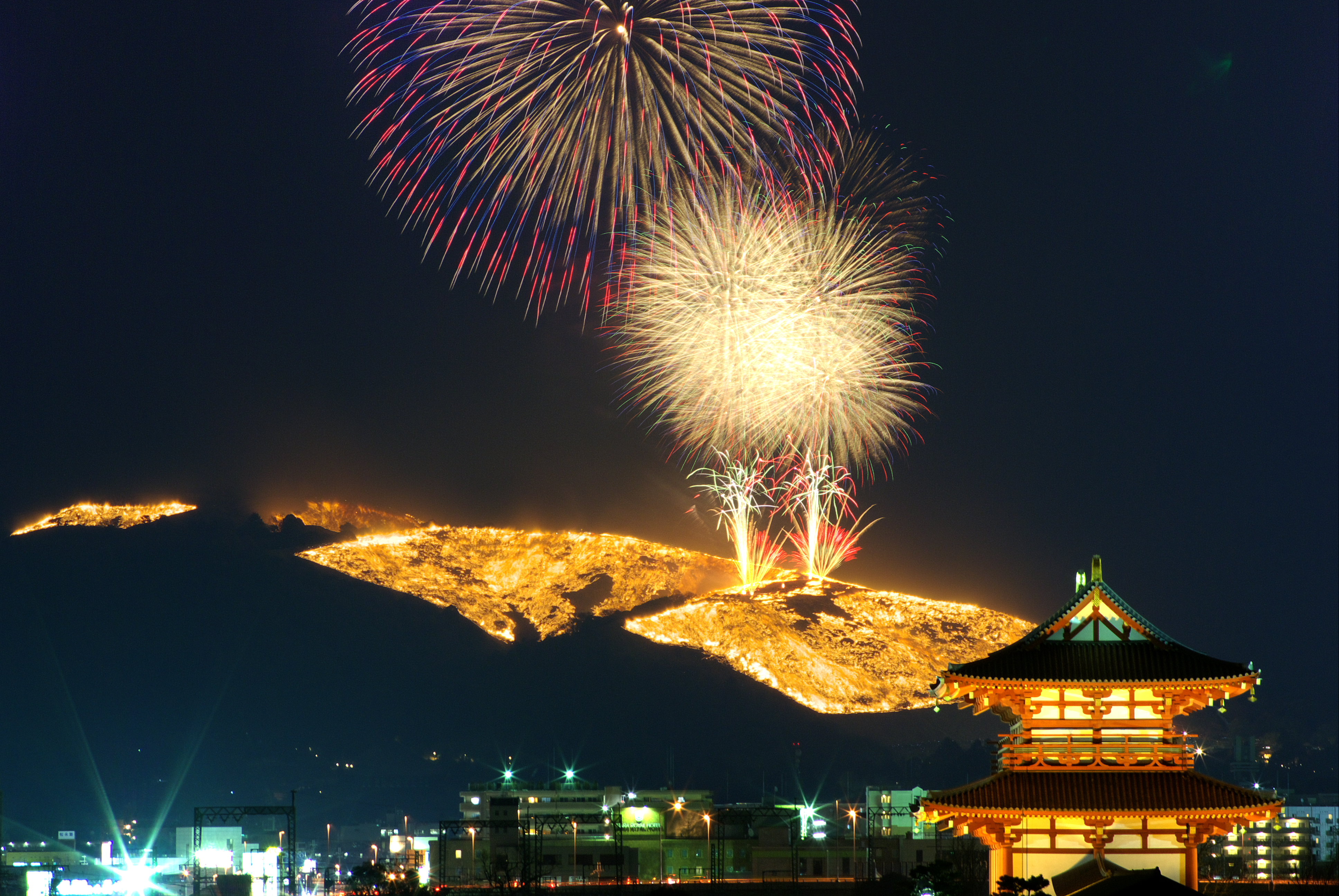 Mountain-burning Wakakusayama seen from the Heijo Palace site. Nara city, Japan. Shooting with extended exposure.